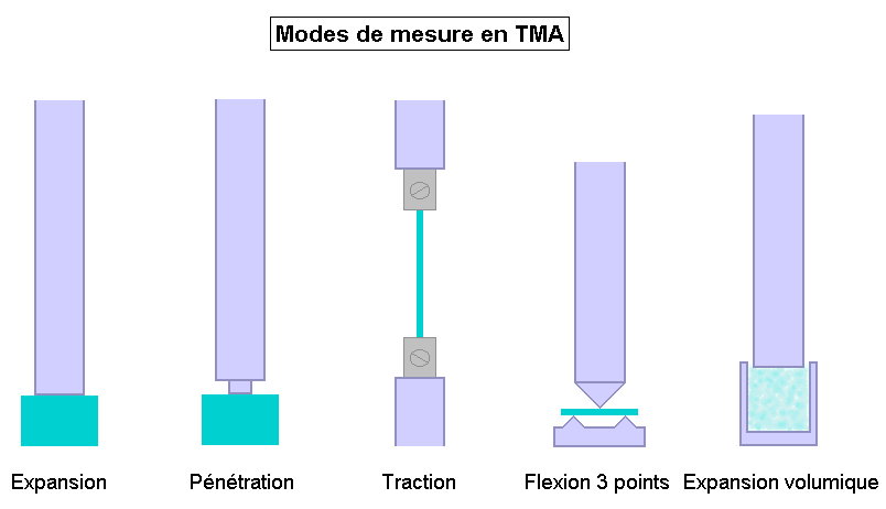 Common investigation modes in thermomechanical analysis (TMA). Probe and sample are respectively shown in purple and green color.